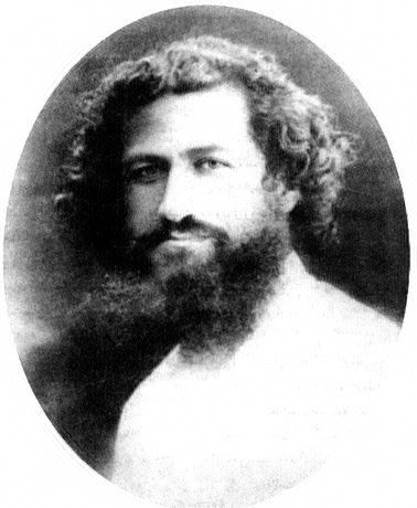 Mirza Kuchek Khan's last picture.